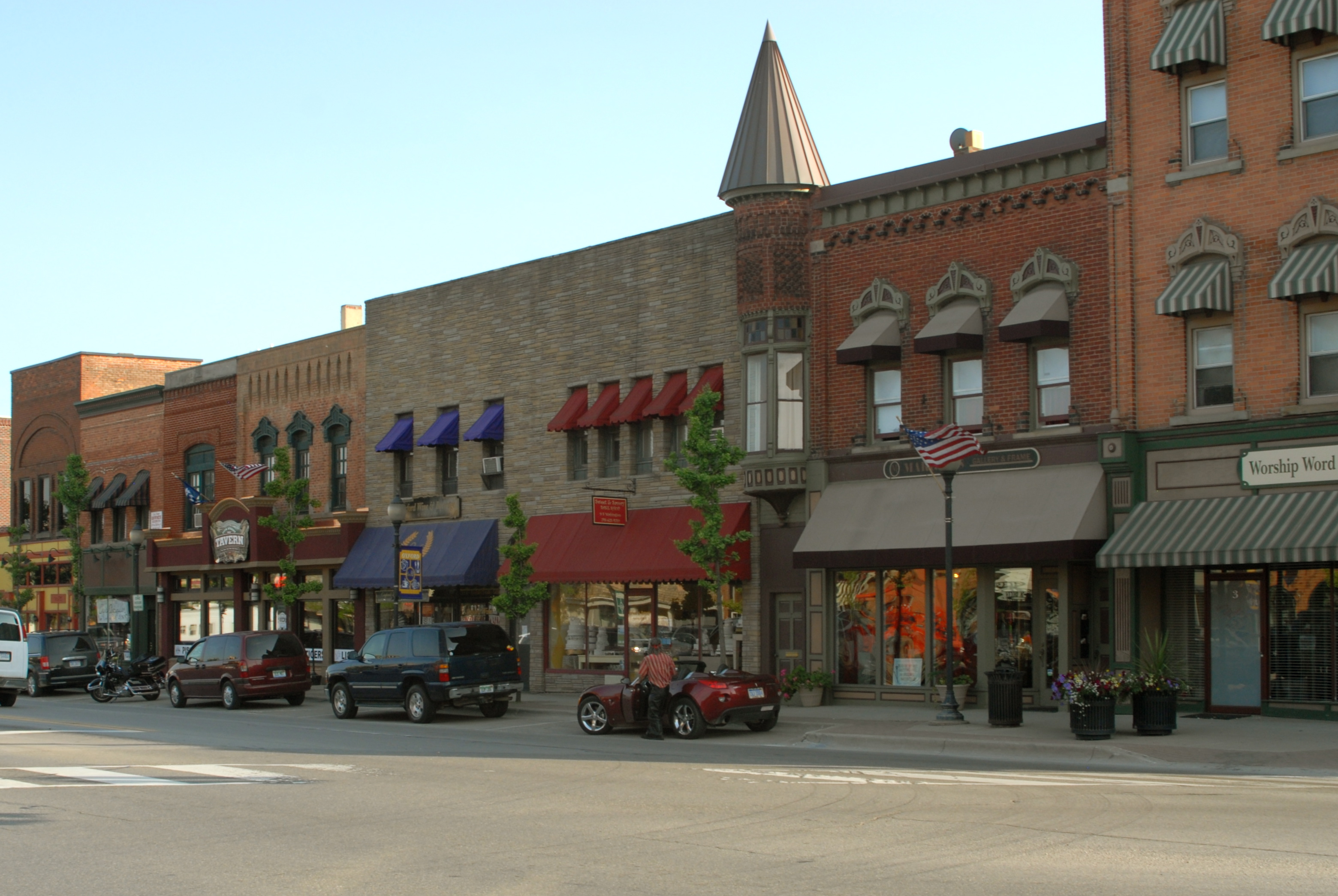 Washington St. in Oxford, MI